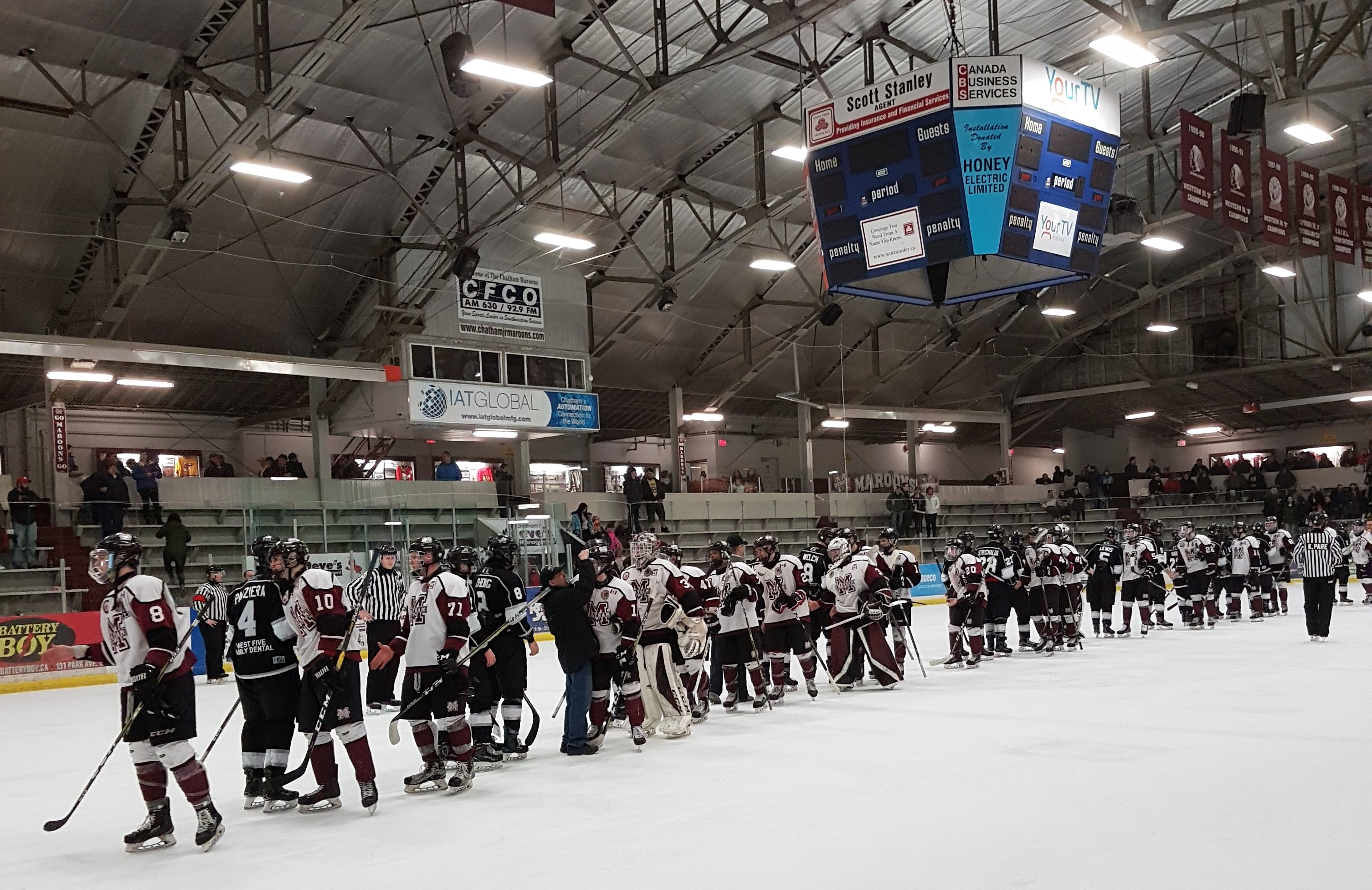 Komoka Kings congratulated by their series win; Greater Ontario Junior Hockey League.